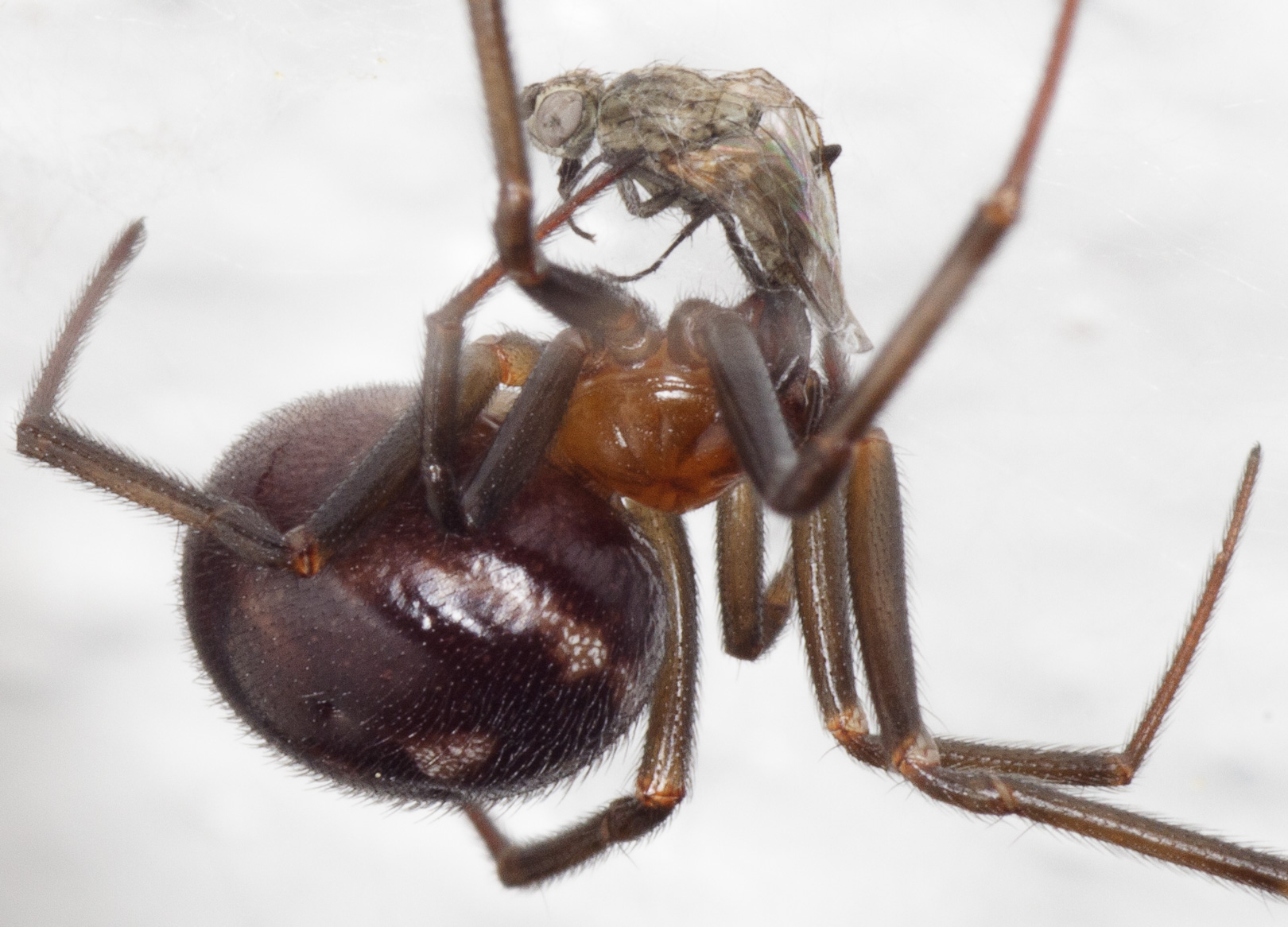 Female spider Steatoda grossa with prey, on a ceiling, obscured slightly with a blurry web. Warsaw, Poland.